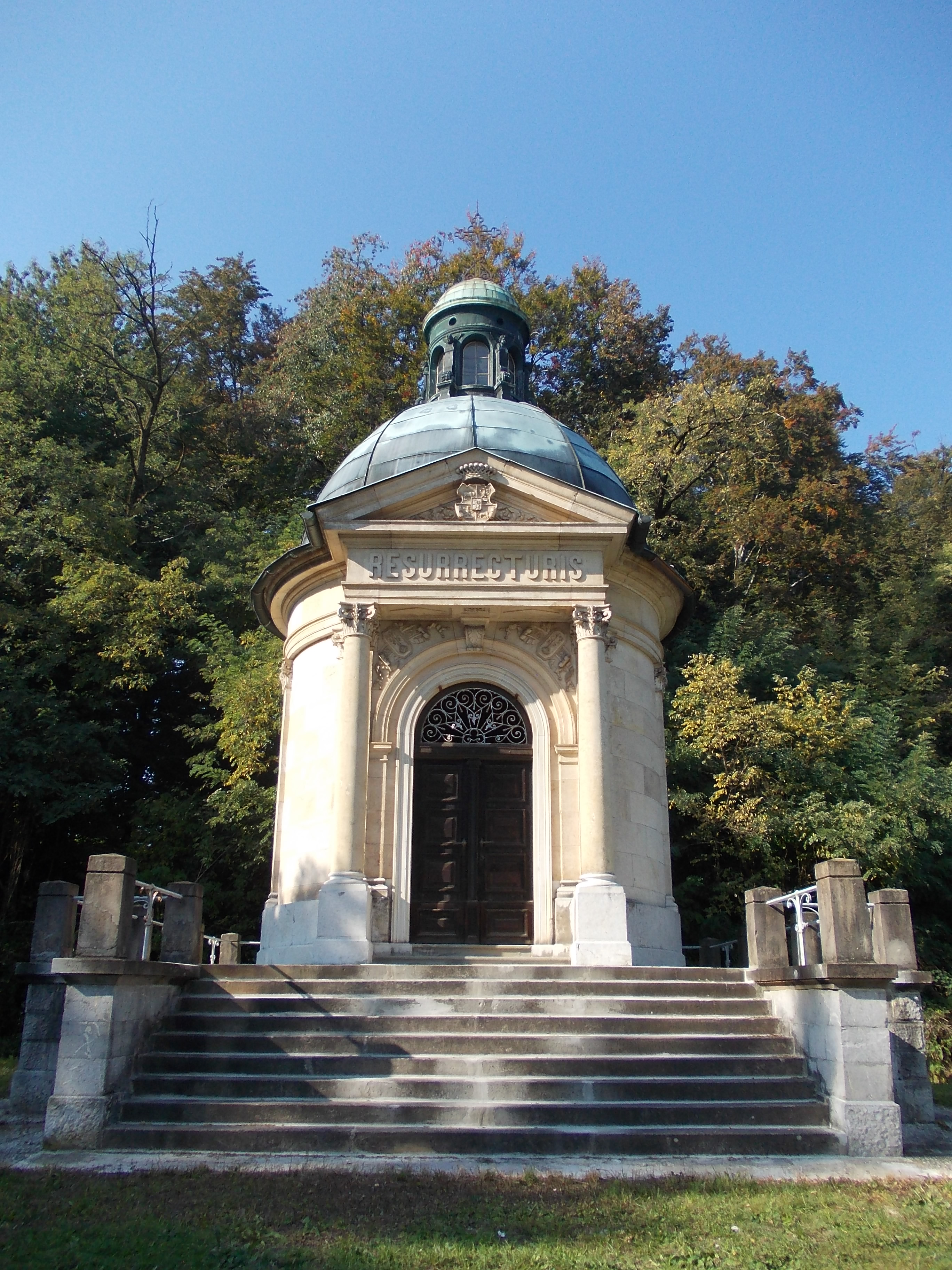 Mausoleum of Anton Alexander von Auersperg